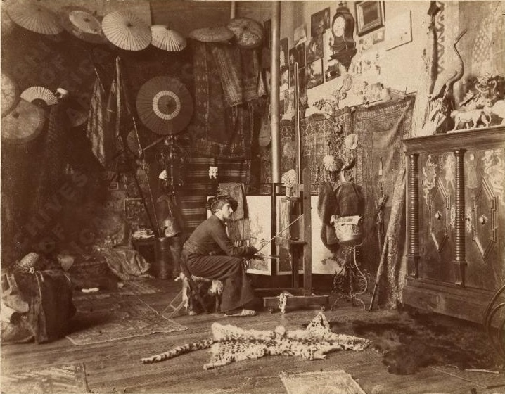 George Rochegrosse in his studio, Paris